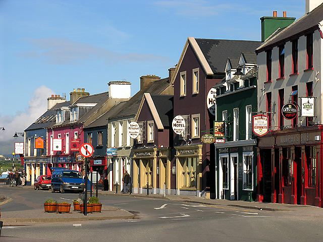 Dingle Town Centre. This street houses many eating places and a few shops. The tourist information centre is on the opposite side of the road to this row of buildings. This view looks west along the road and is on the northern edge of the grid square of the map, at gpr Q44460-00994.